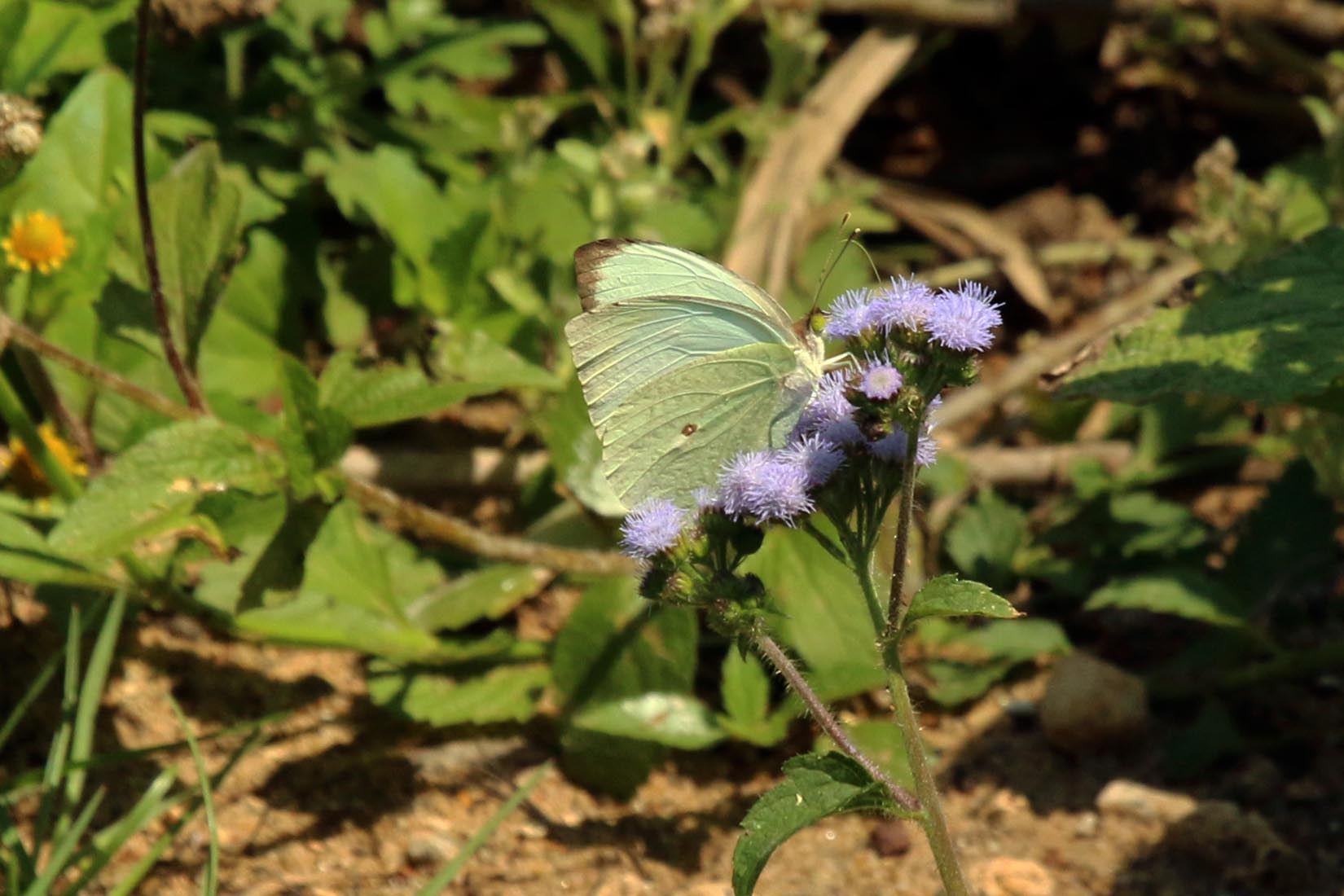 Green-eyed monster butterfly (Nepheronia buquetii), uMkhuse Game Reserve, KwaZulu Natal, South Africa